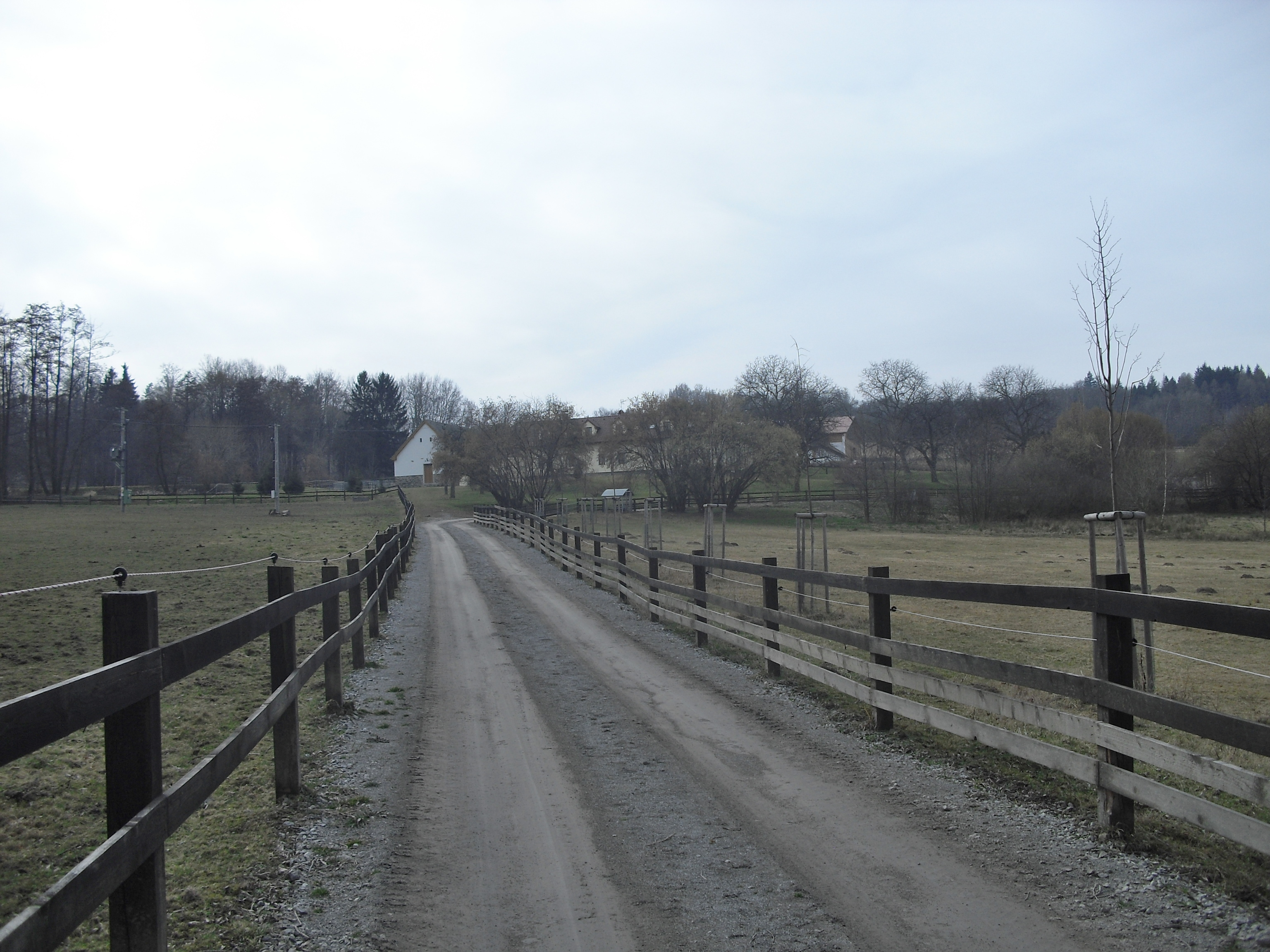 Olbramovice, Benešov District, Czech Republic, part Babice.